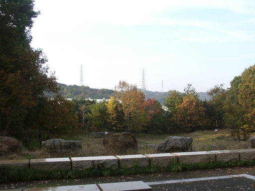 Ebisu Park (Tawaradai, Shijonawate, Japan)